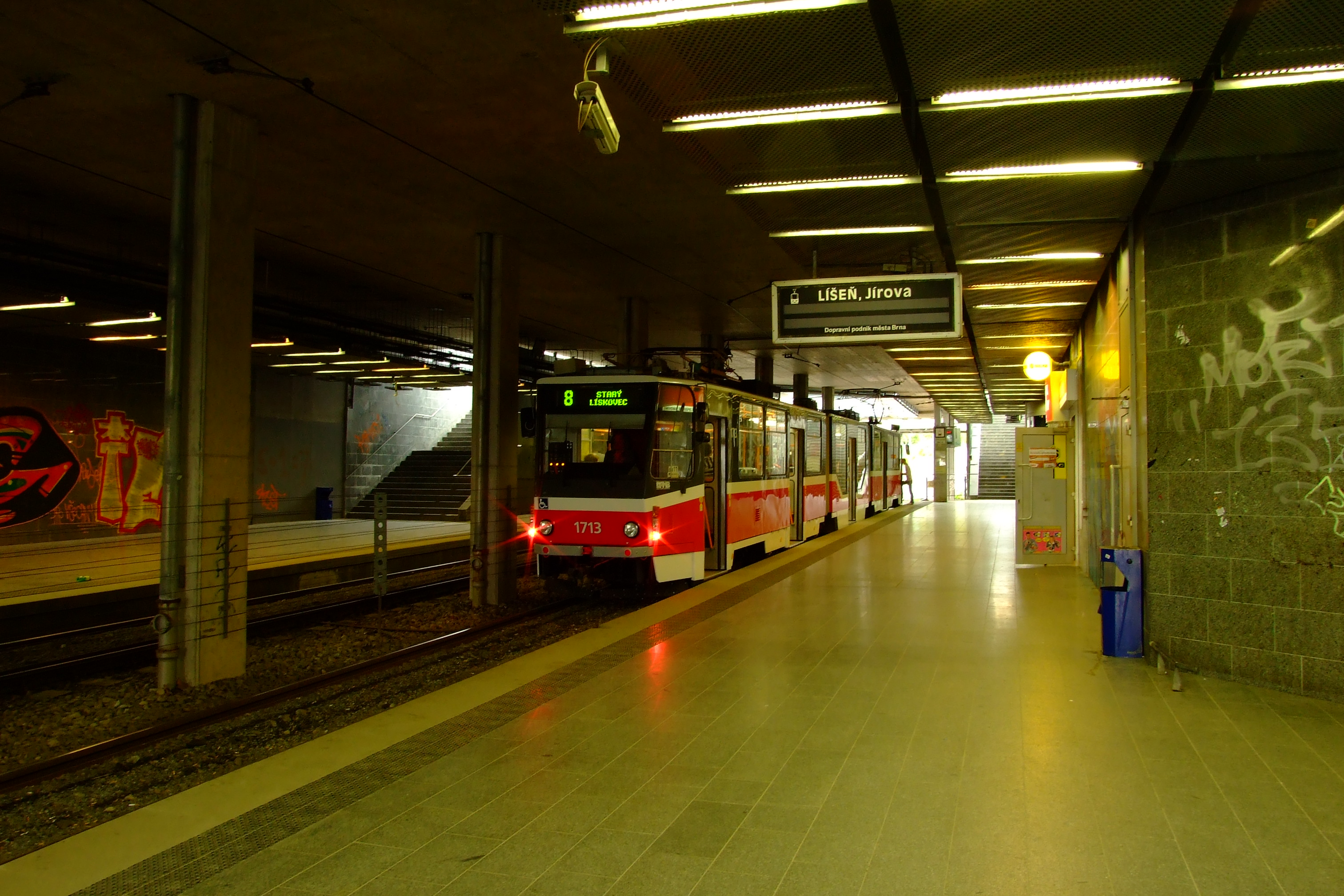 Underground tram station in Brno-Líšeň.